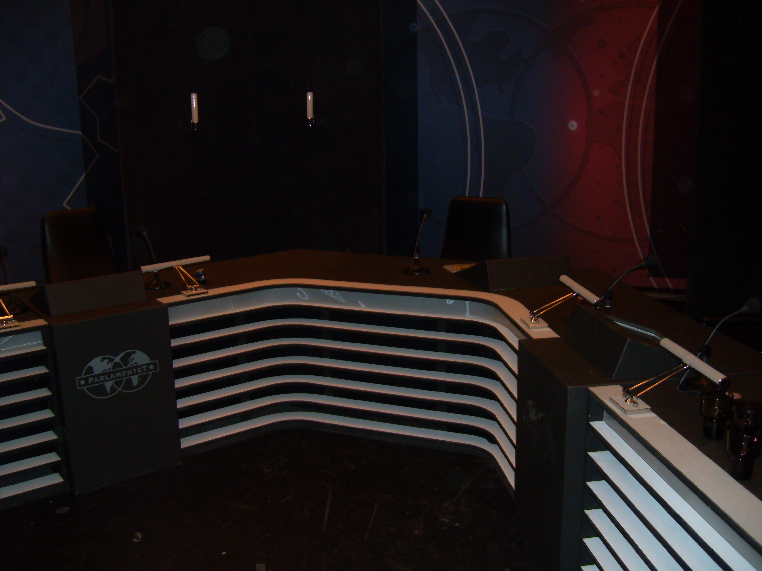 Photo taken from Swedish TV-show Parlamentet.